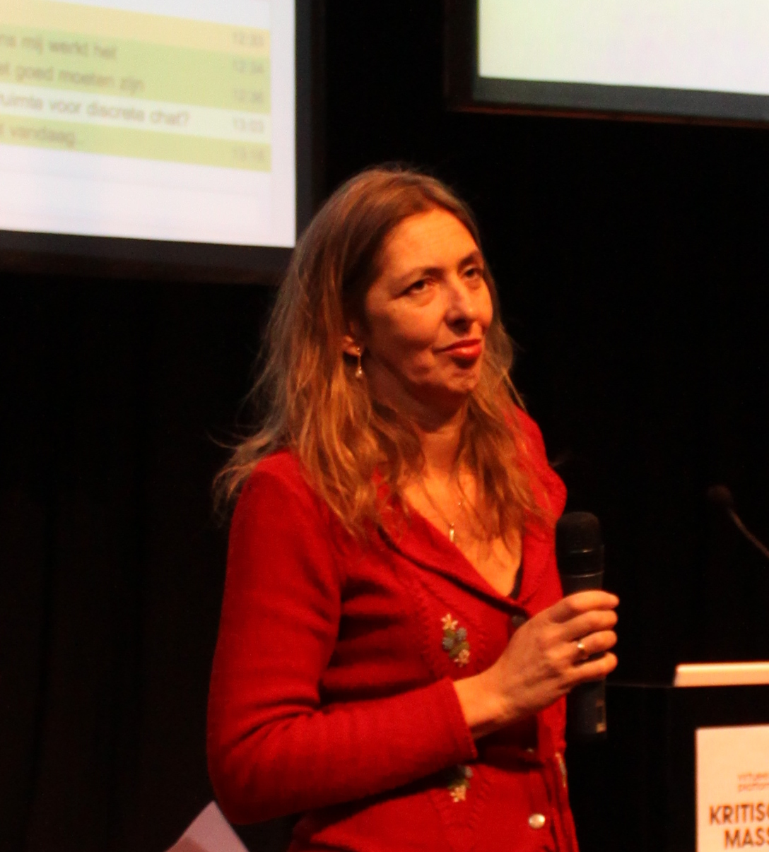 Ine Poppe